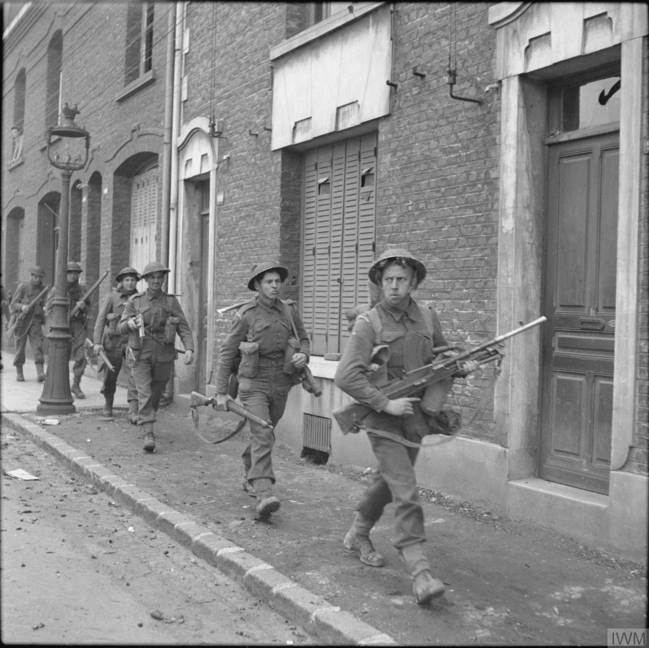 The British Army in North-west Europe 1944-45 Infantry of the Coldstream Guards patrol through Arras, 1 September 1944.